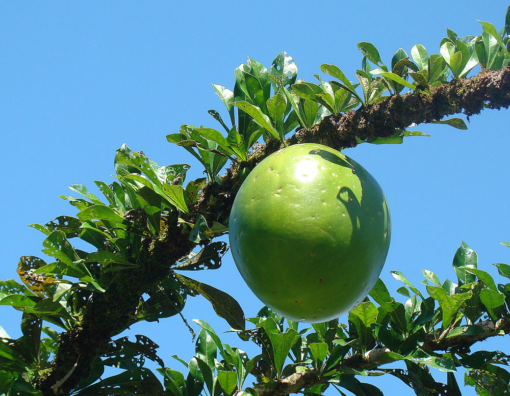 Photo from the northwest coast of Panama, the huge fruit are called Totumo. IIn context at